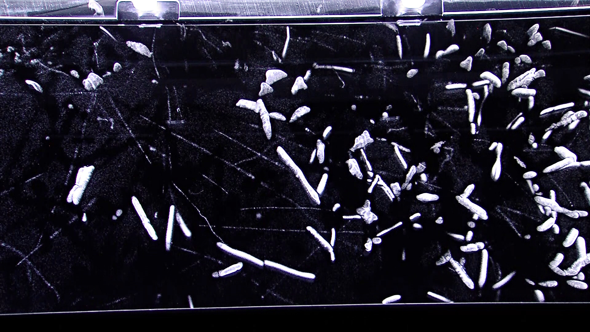 Cloud chamber with cloud tracks created by particles of ionising radiation. (Image taken after injection of radon.)